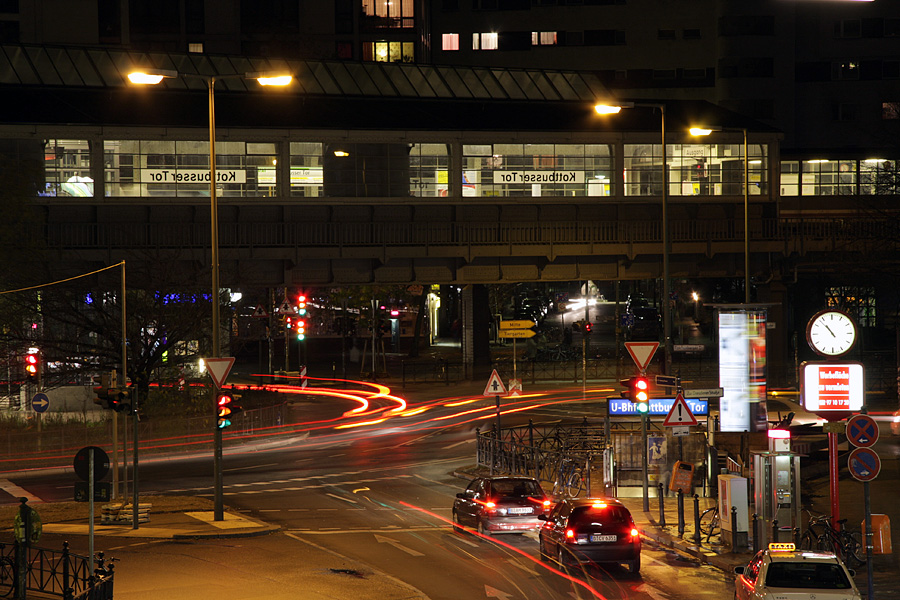 Kottbusser Tor at night with crossroads and subway station, looking from Adalbertstraße south.